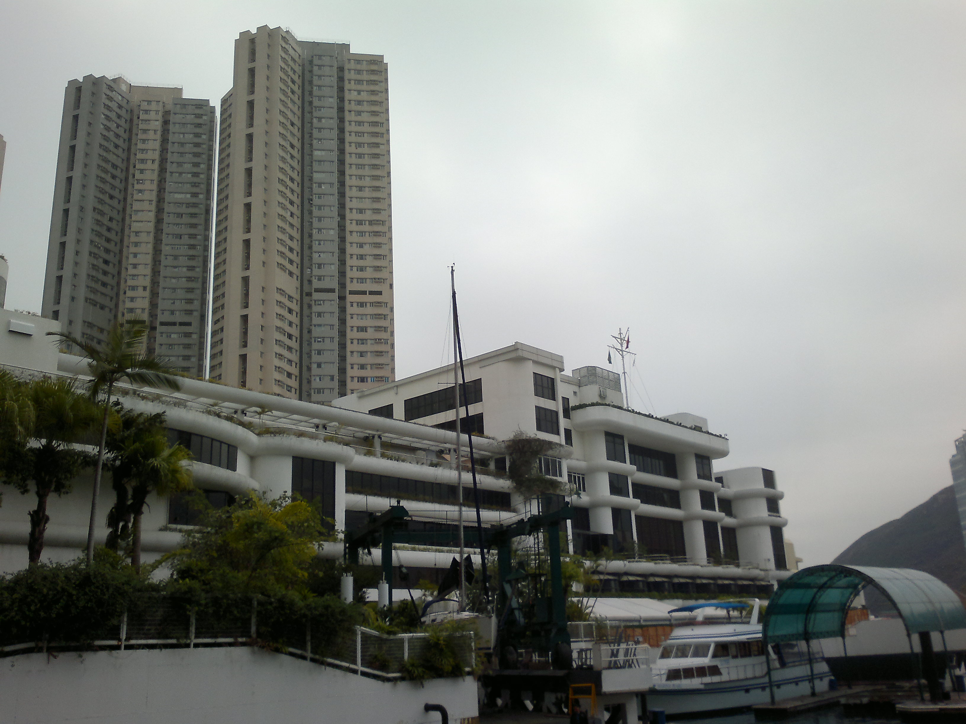 Broadview Court & Aberdeen Boat Club